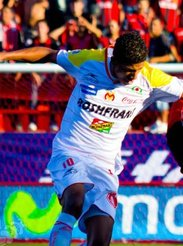 Morelia player Joao Rojas